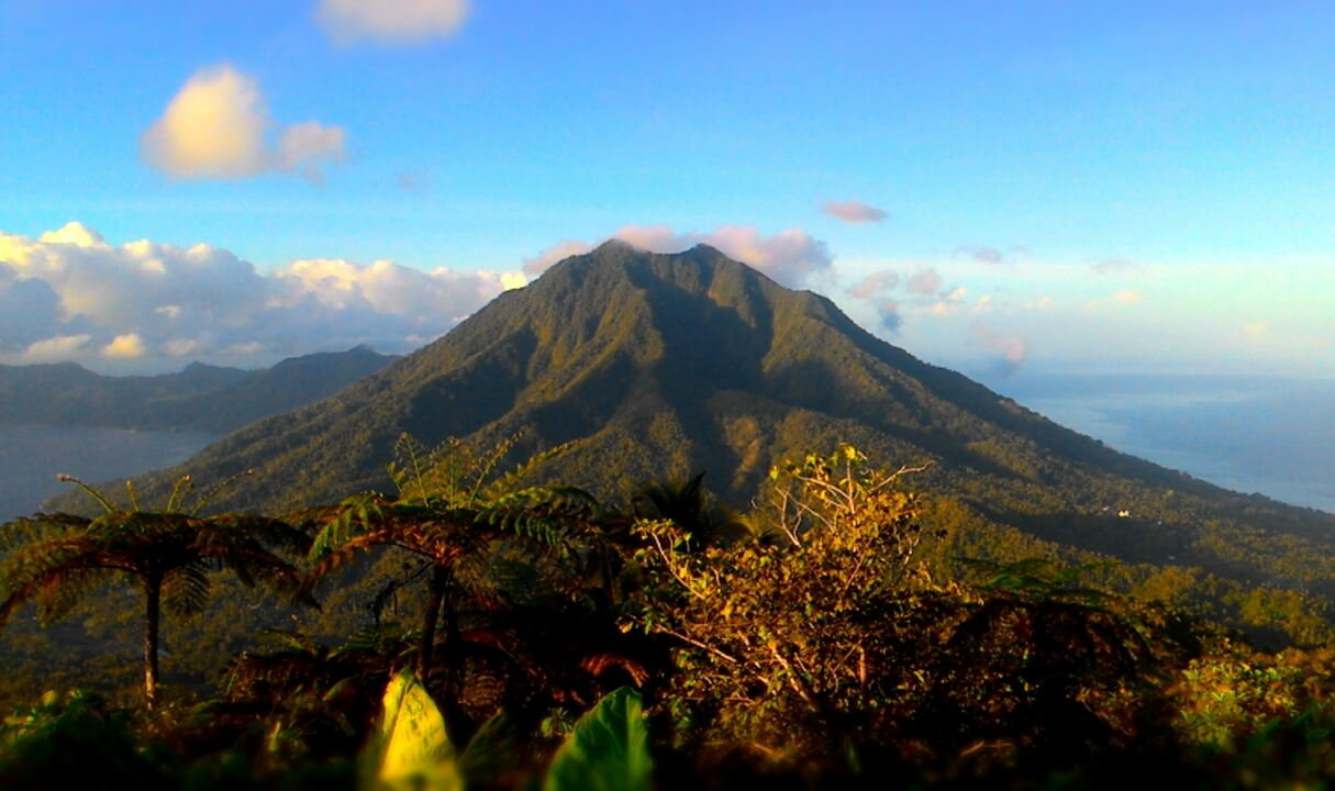 Mount Tamata. Kabupaten Kepulauan Siau Tagulandang Biaro. North Sulawesi